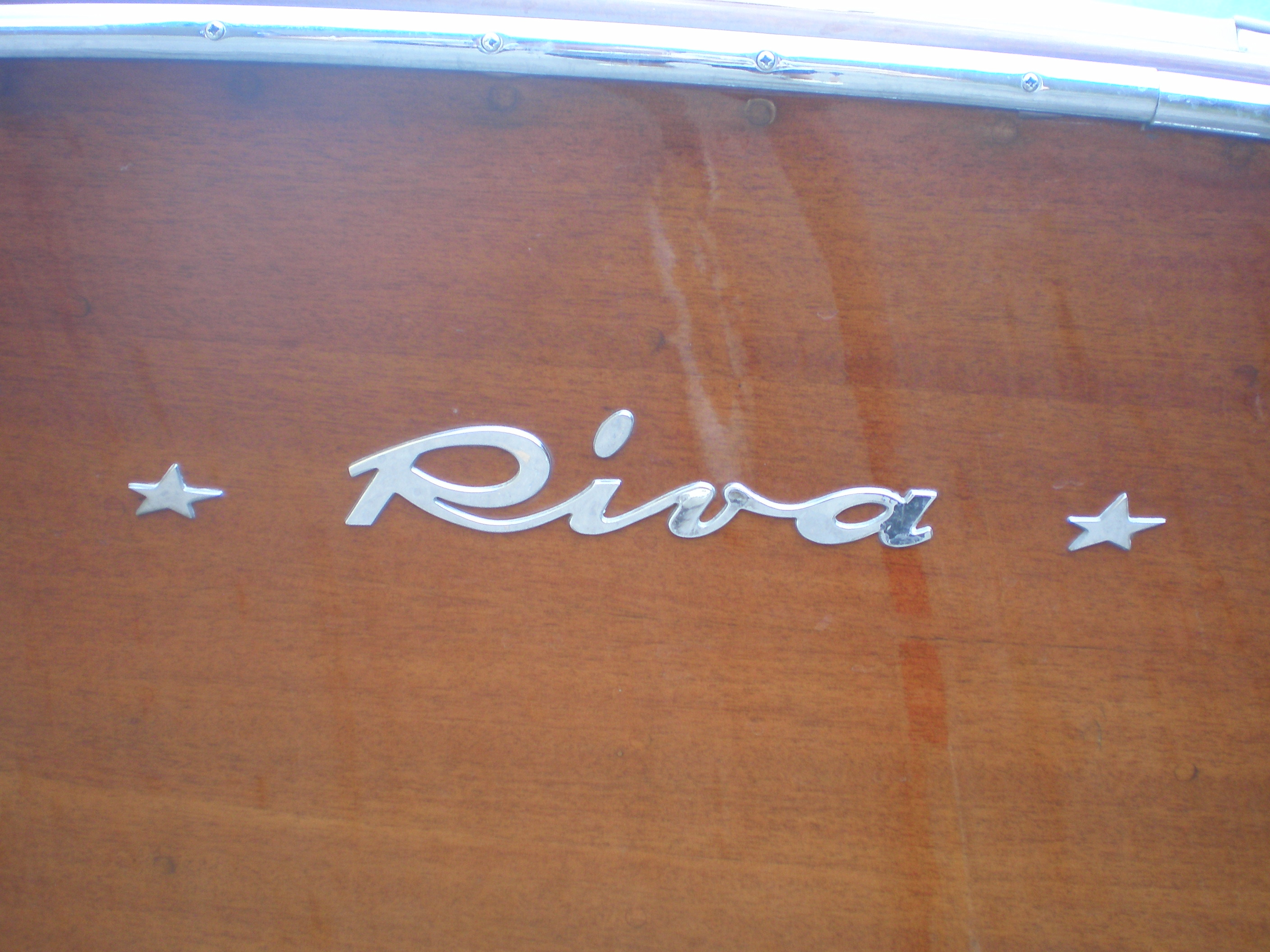 Riva boat mark